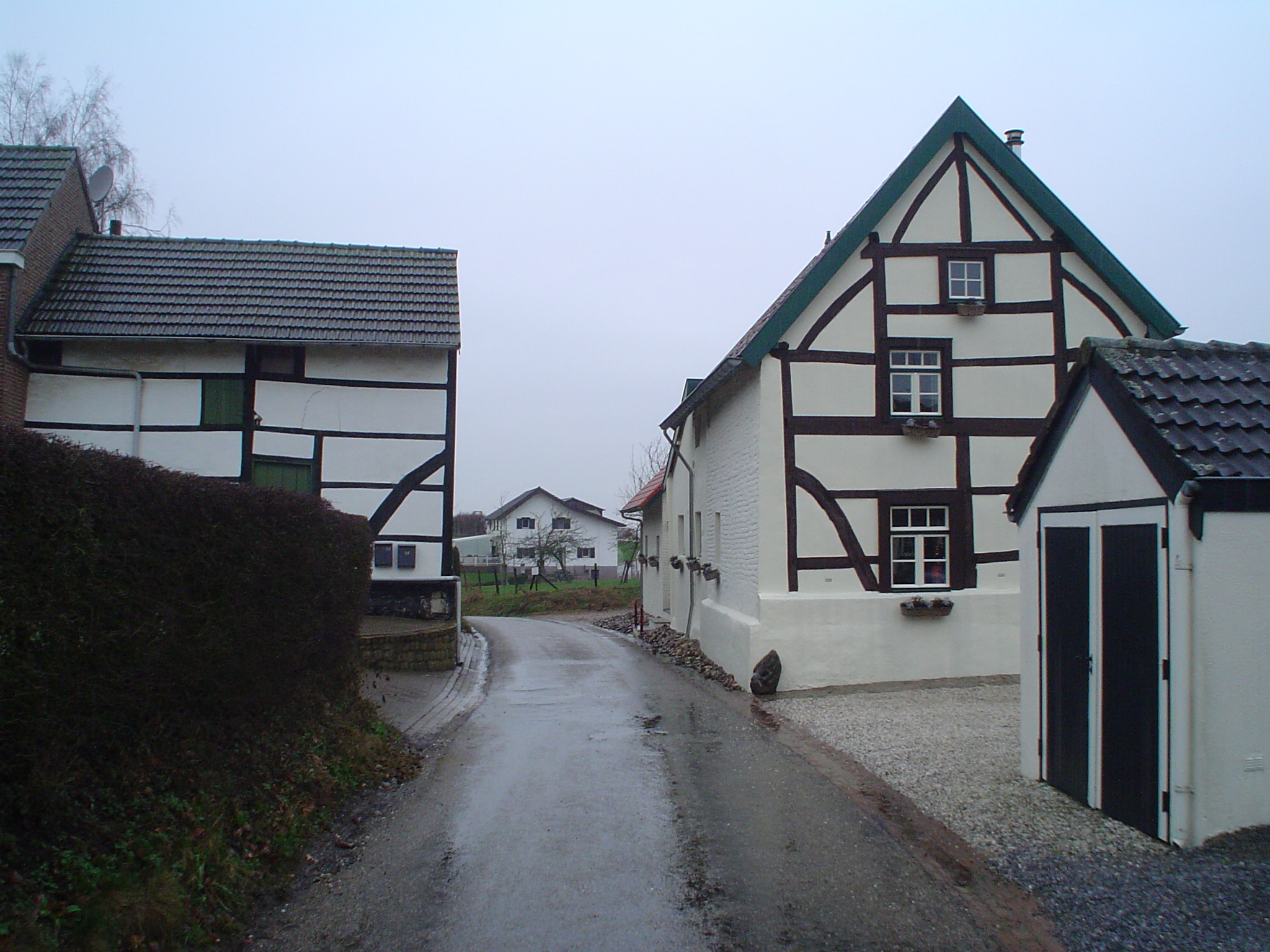 The hamlet Melleschet, near Vaals, the Netherlands